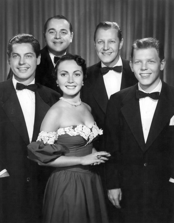 Publicity photo of the vocal group The Modernaires, who were regulars on the CBS Radio Club 15 radio program.